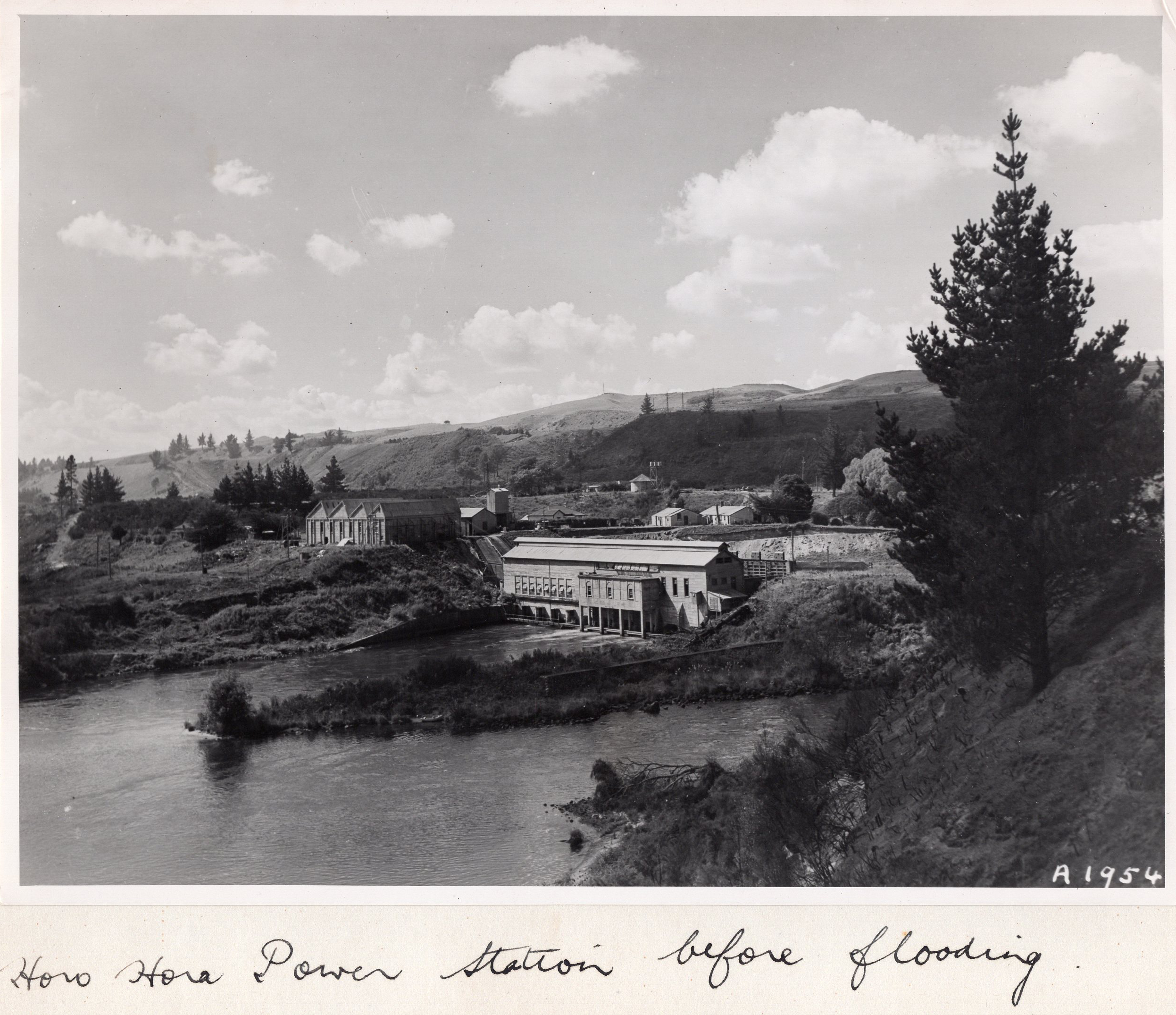 Archives New Zealand Reference: AAFZ 6329 W3302 Box 27